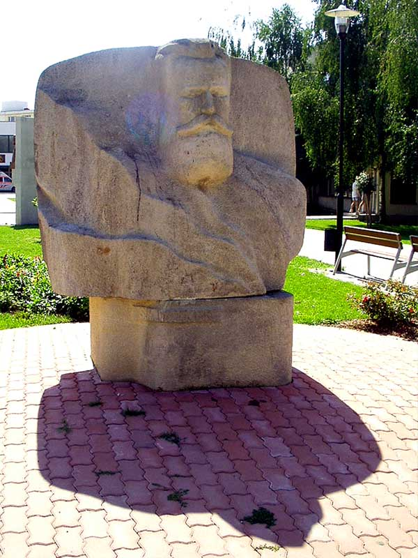 Statue: Štefan Marko Daxner (Štefan Marko Daxner square, Rimavská Sobota, Slovakia)